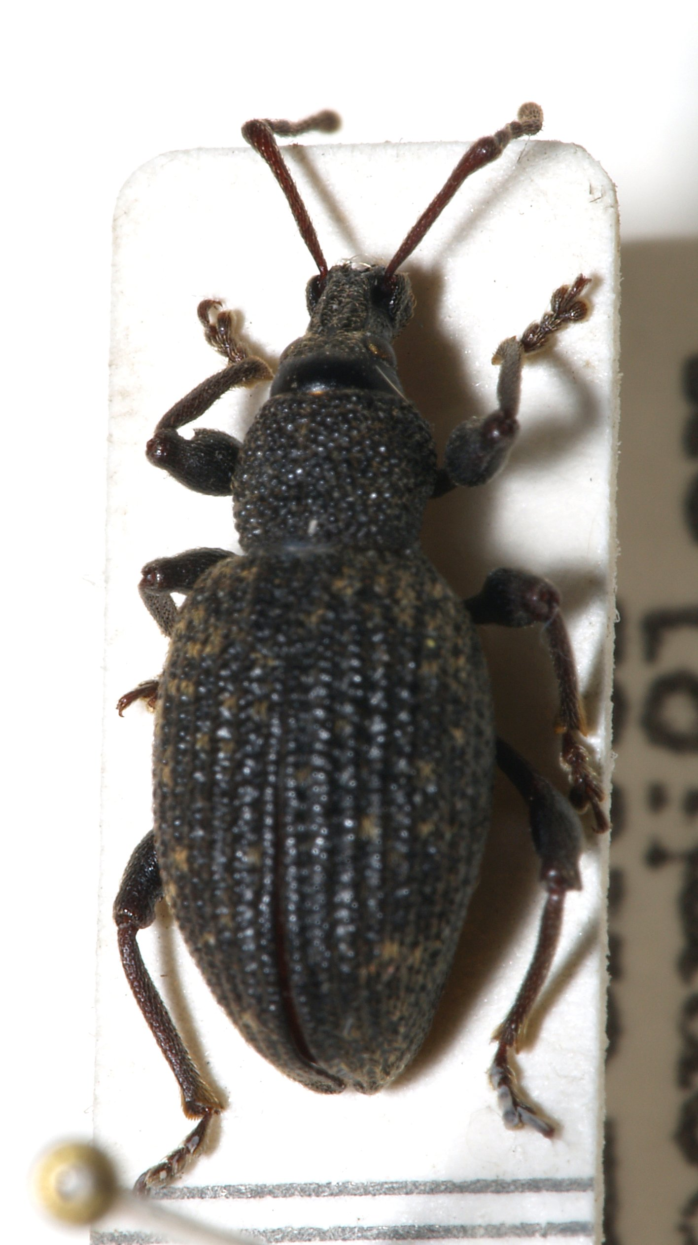 Otiorrhynchus sulcatus